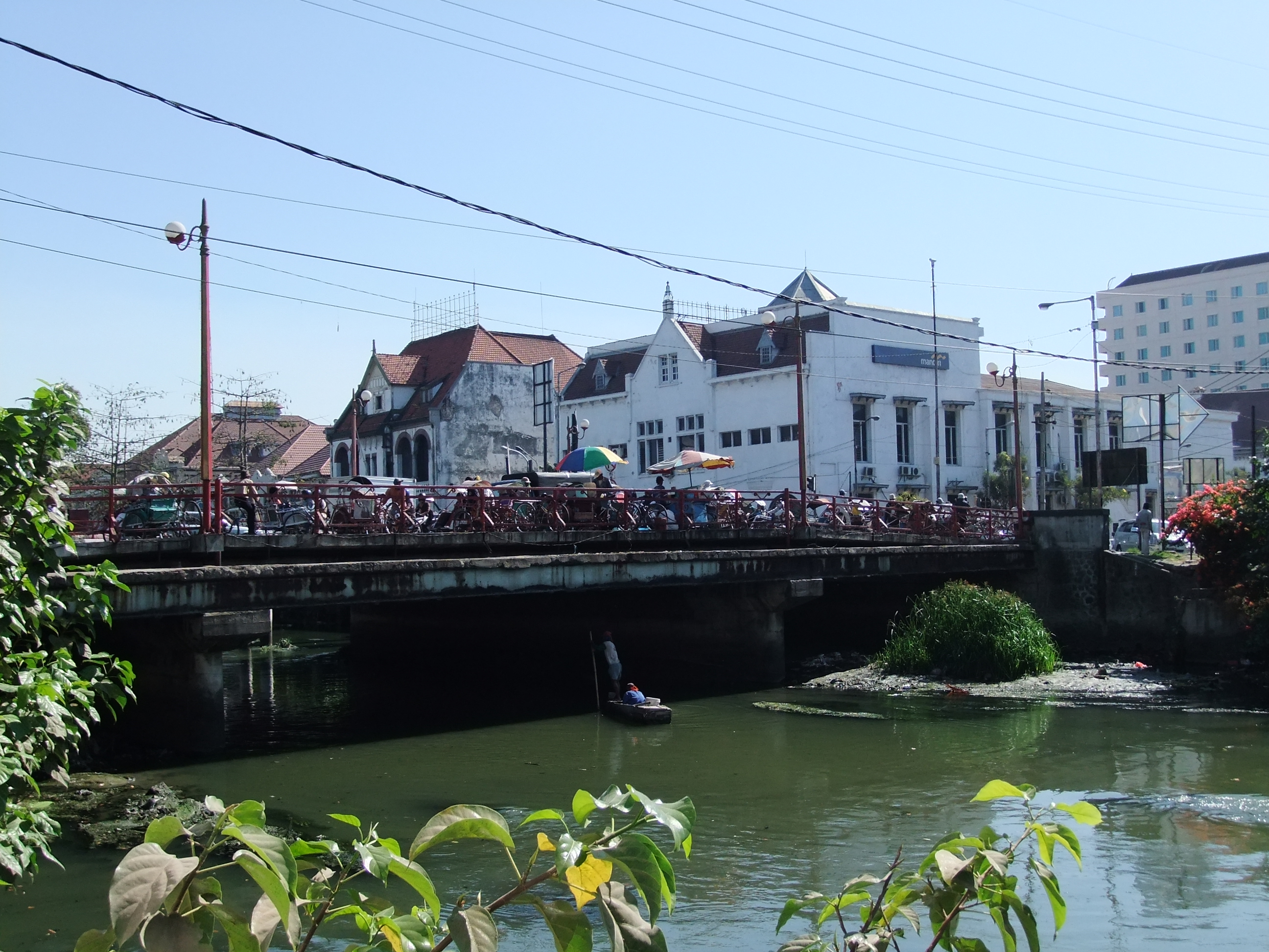 Jembatan Merah, Surabaya